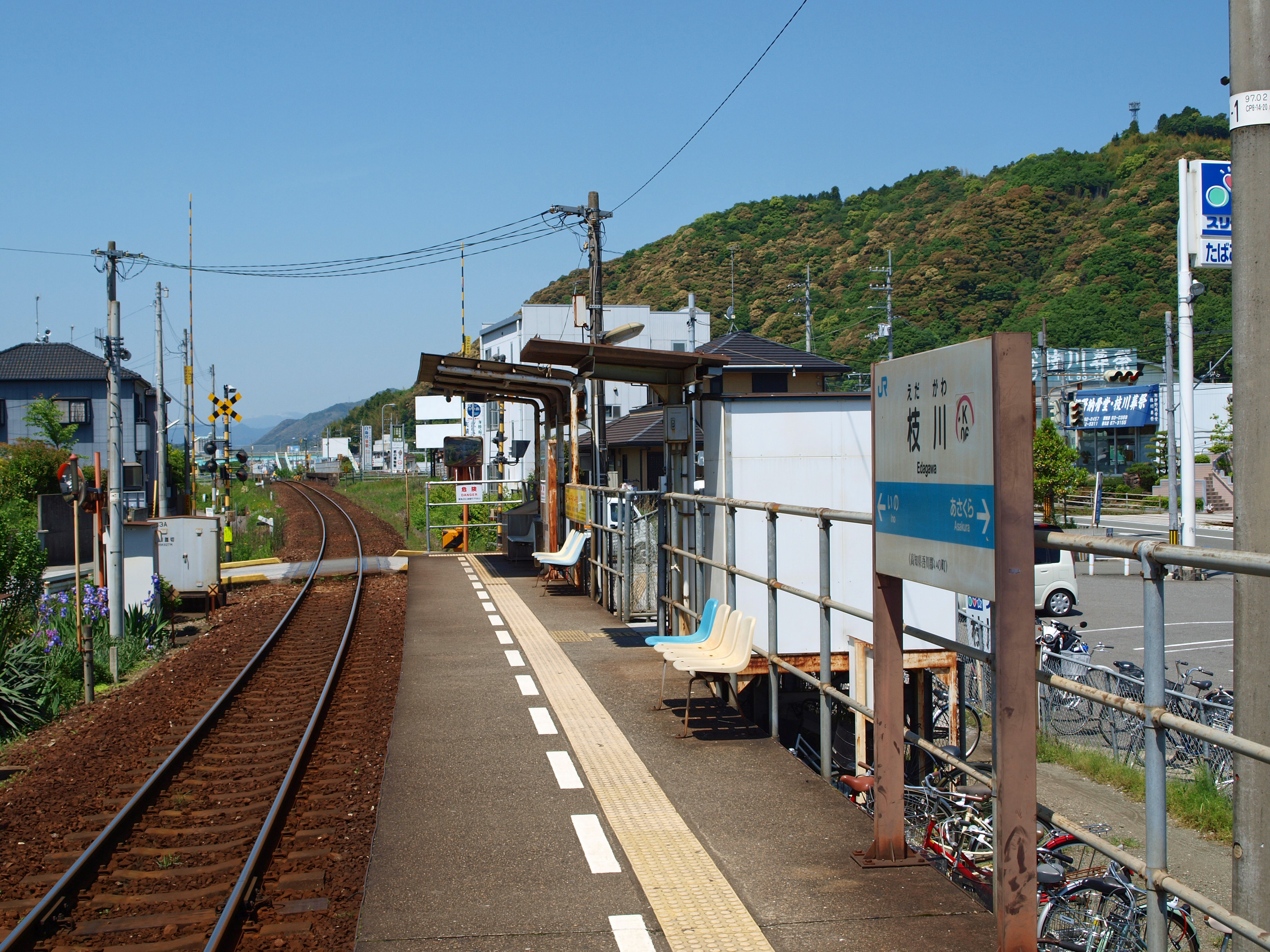 Edagawa station, Dosan-line, JR Shikoku, Japan